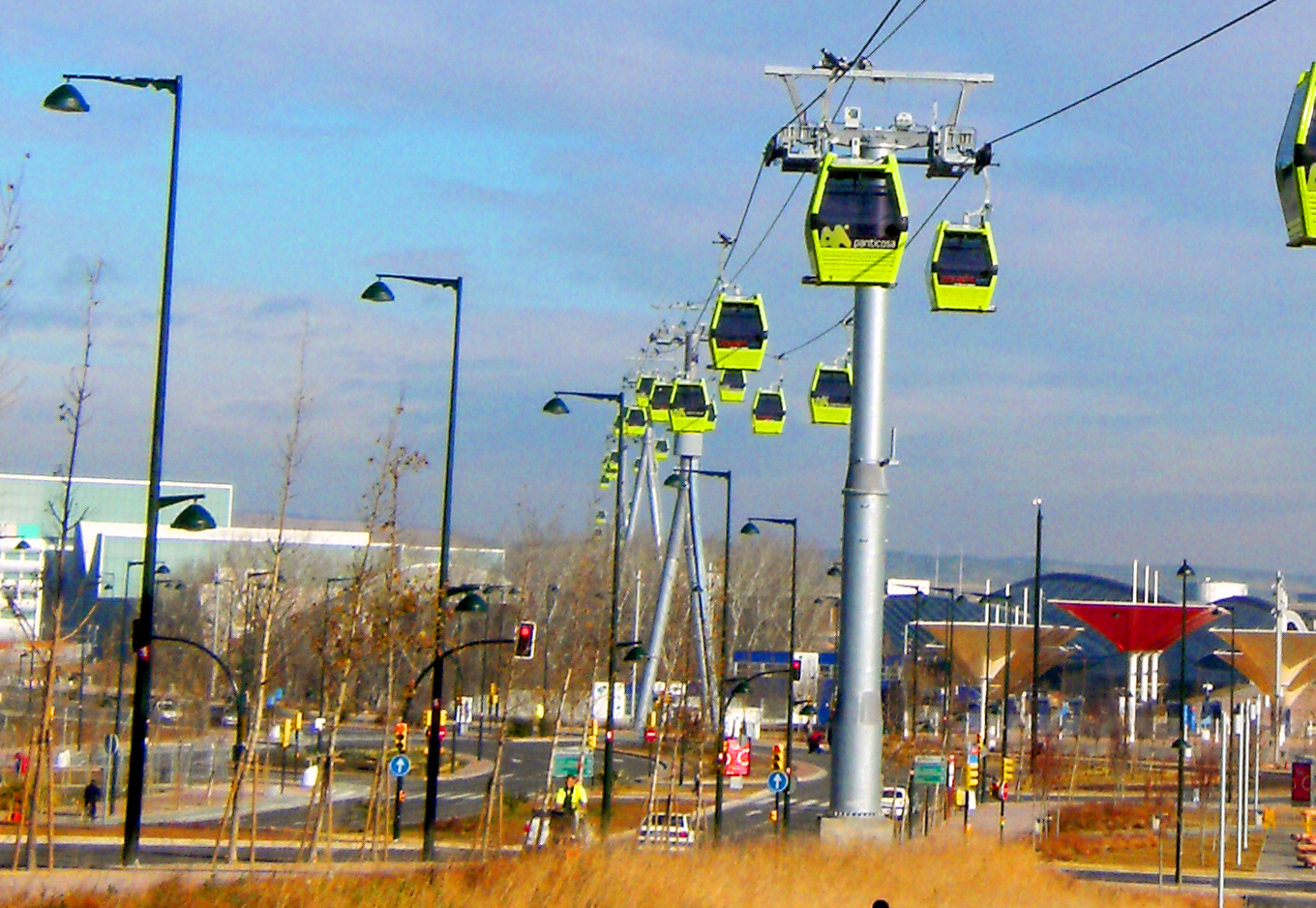 Zaragoza; Look at 2008 International Fair place